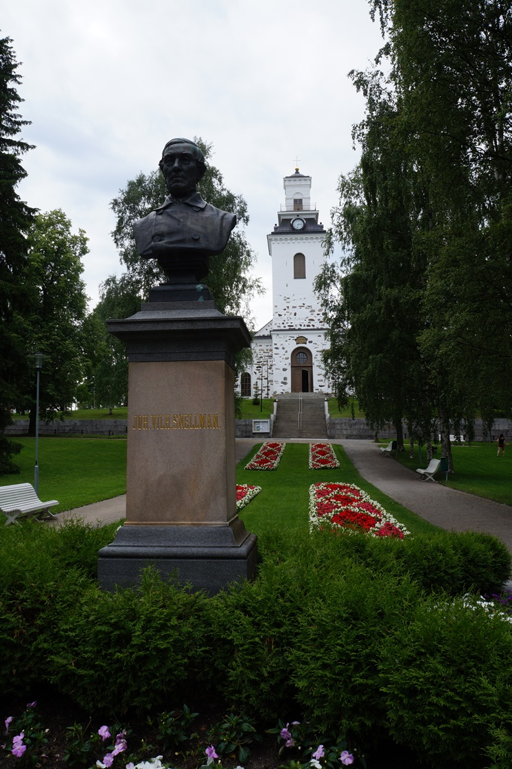 Bust of J. V. Snellman by Johannes Takanen, Kuopio, Finland. - Unveiled in 1886.